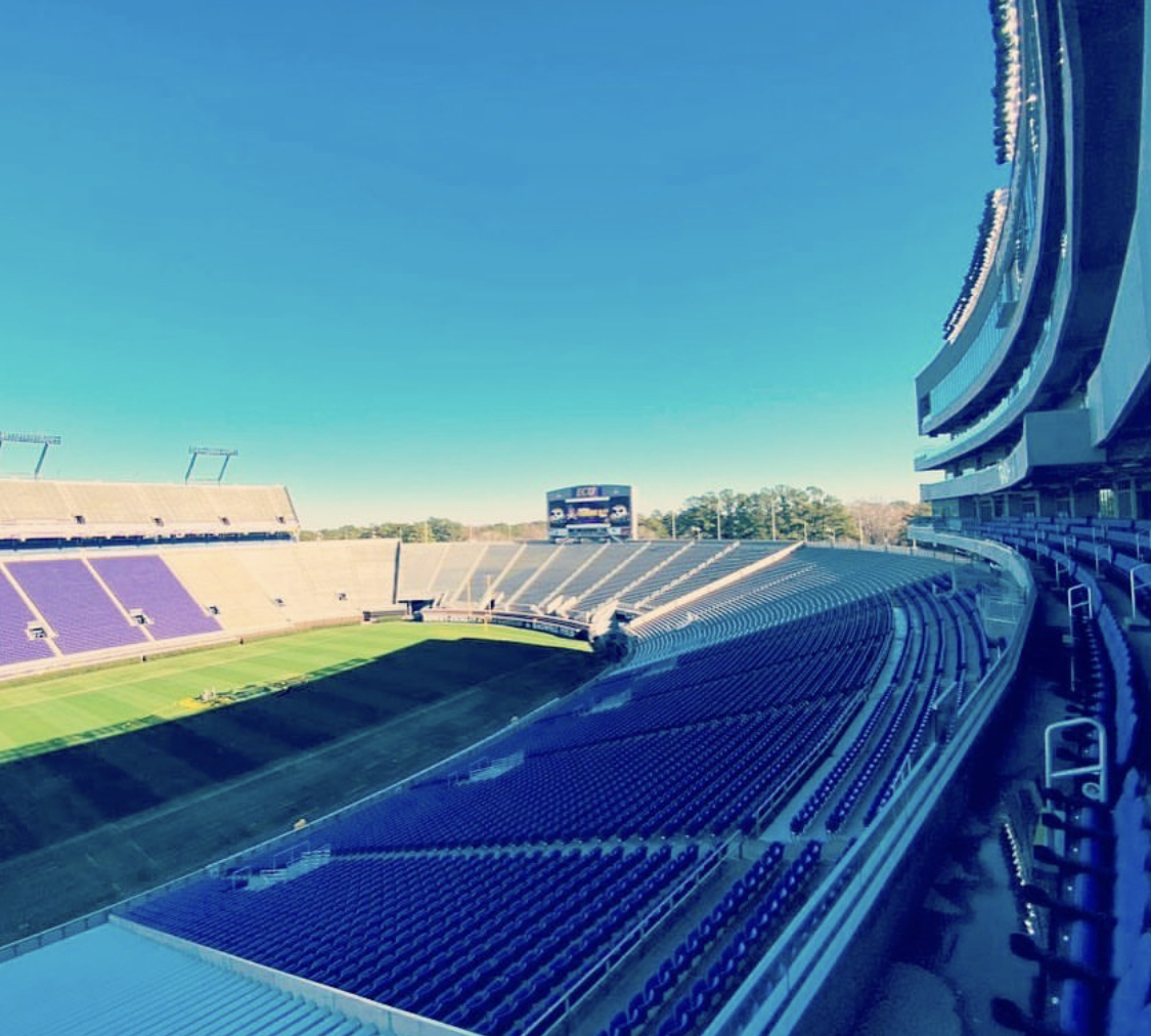 This is an updated picture of East Carolina Pirates football stadium. Dowdy Ficklen Stadium ramen in 2019